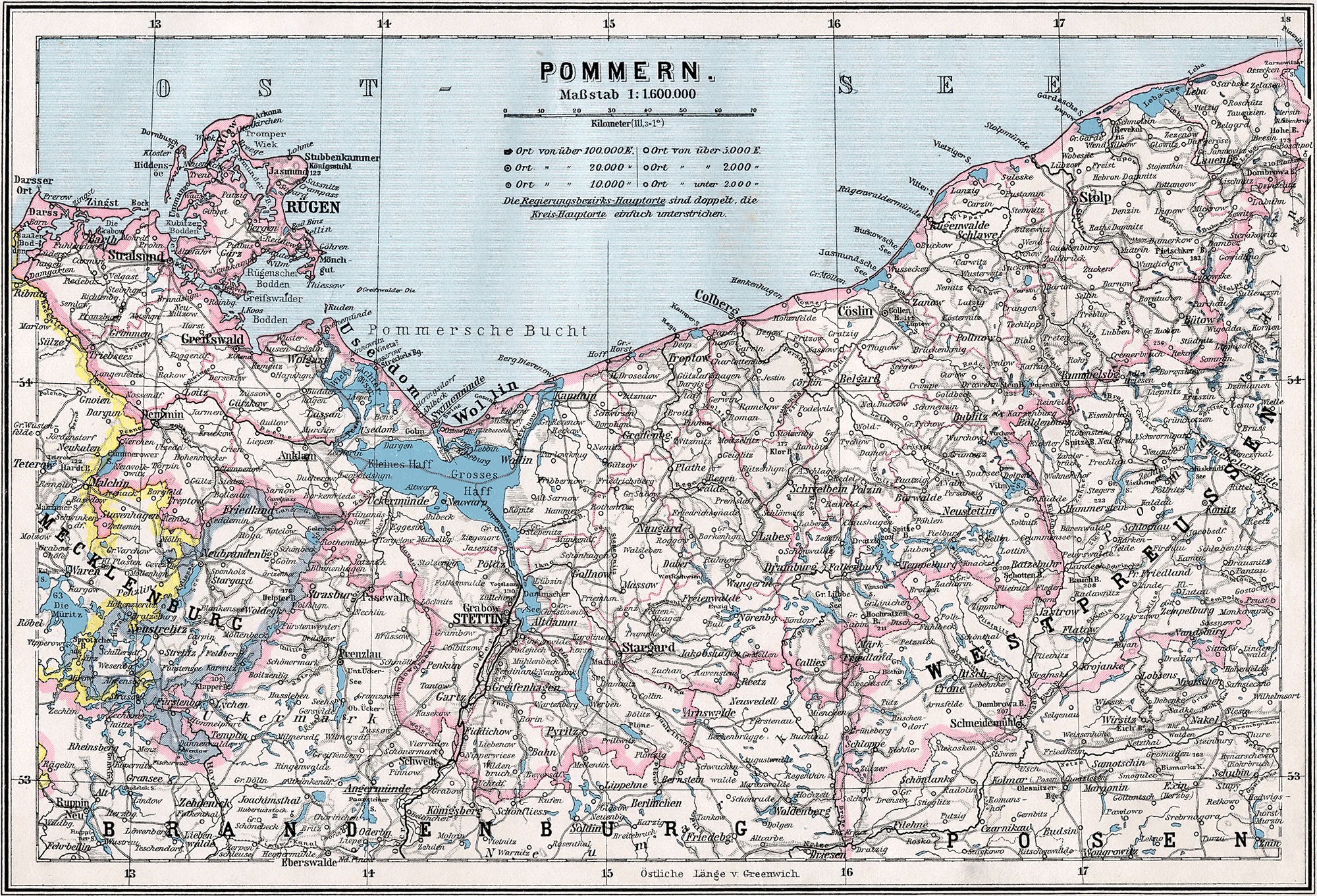 Map of the historical prussian province of Pomerania